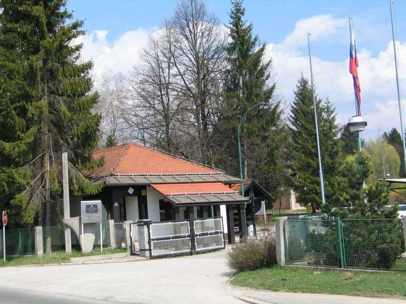 Vojašnica Kranj